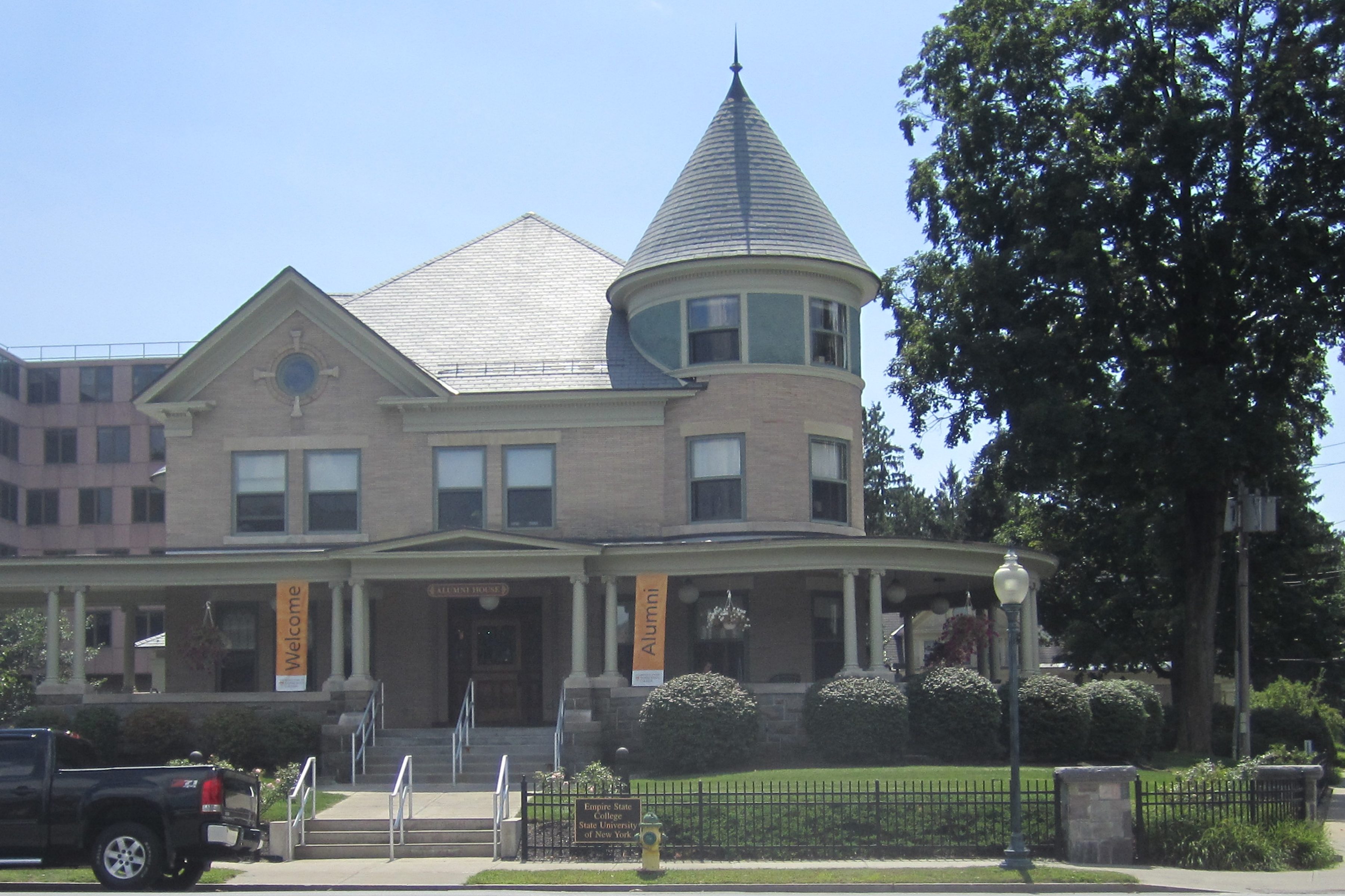 28 Union Avenue, Saratoga Springs, NY. Designed for Daniel P. McQueen by R. Newton Brezee (1896). Now "Alumni Hall" of Empire State College